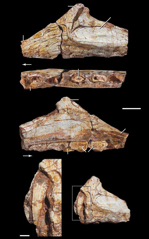 Partial left maxilla of an archosaur (TMM 41936-1.1), Otis Chalk area, Dockum Group, Late Triassic, found with and possibly referable to neotheropod Lepidus praecisio gen. et sp. nov., in lateral (A), ventral (B), and medial (C) views, arrows indicate anterior direction. D. A replacement tooth in labial view within the fourth alveolus in anterolateral view (D2), close up (D1).